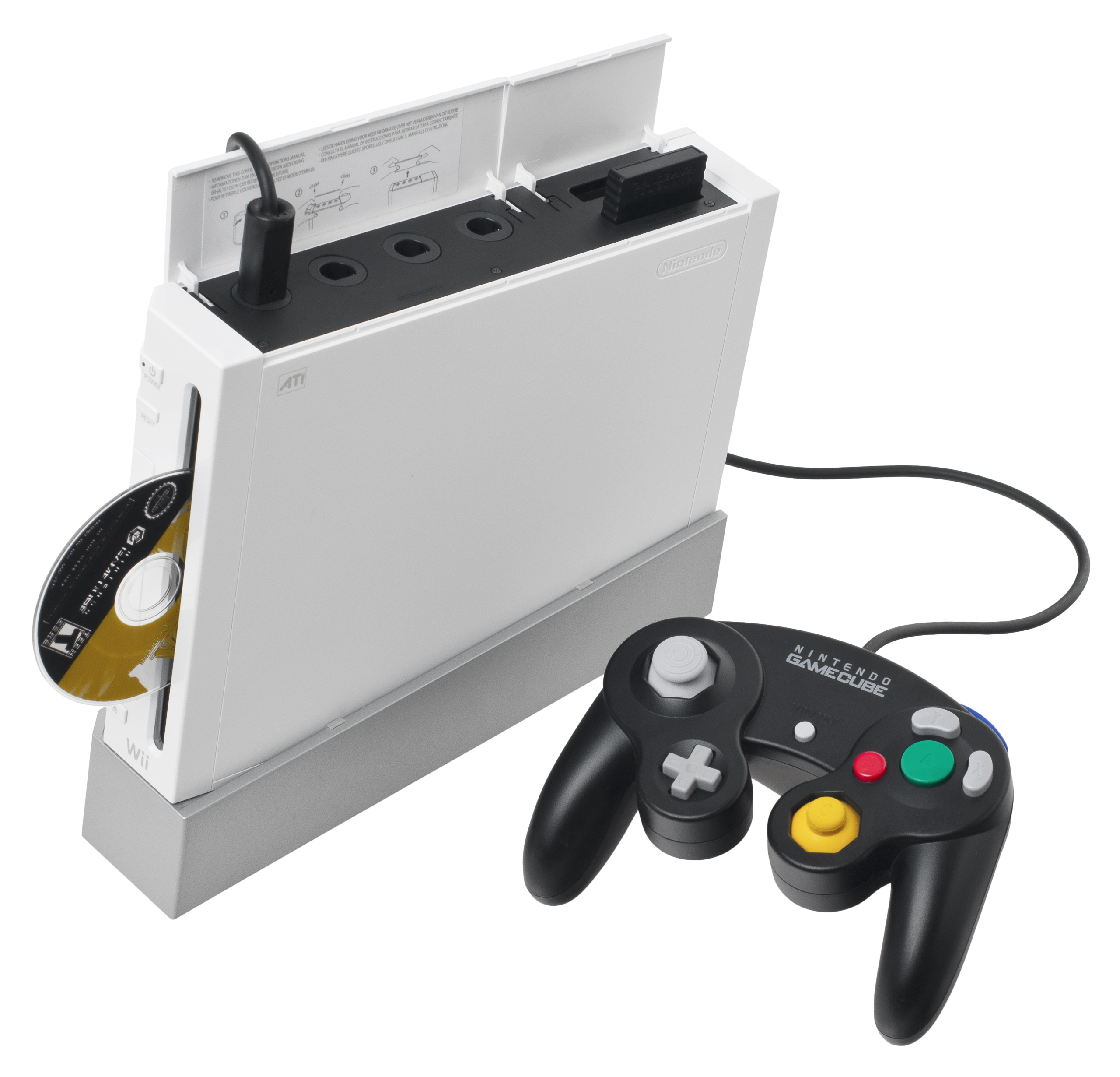 Nintendo Wii console with GameCube Memory Card and GameCube Controller connected, and GameCube game semi-inserted.